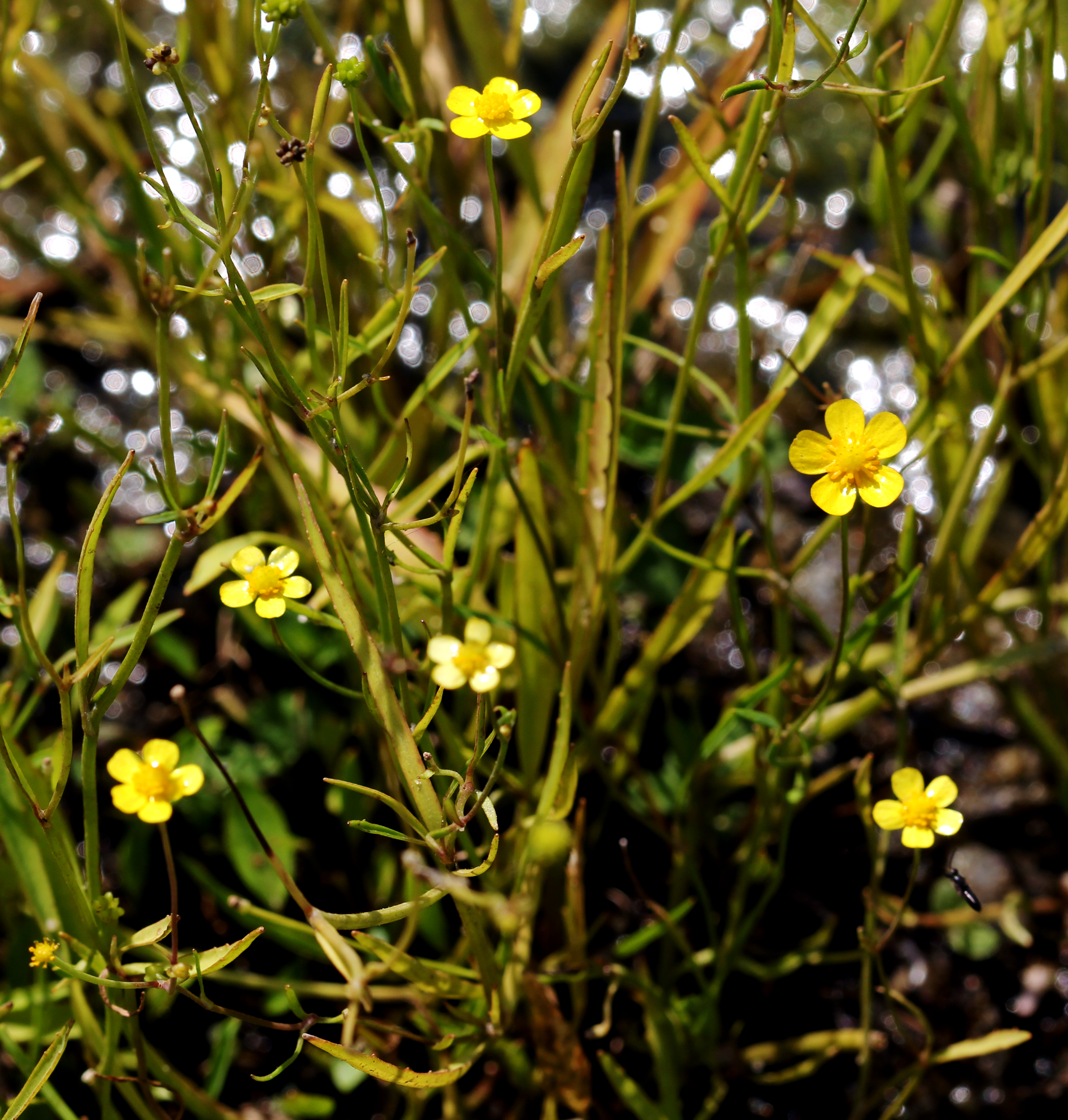 Flowers of plant Ranunculus flammula, (Ranunculus flammula), the Botanical Gardens of Charles University, Prague, Czech Republic